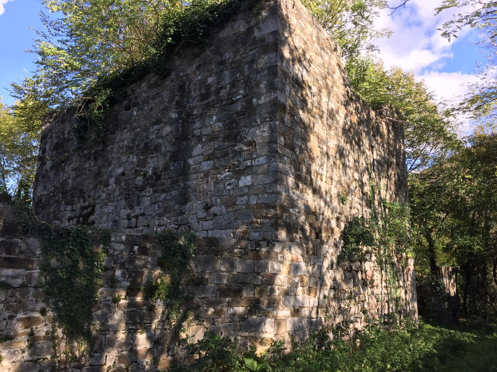 Attimis Sup